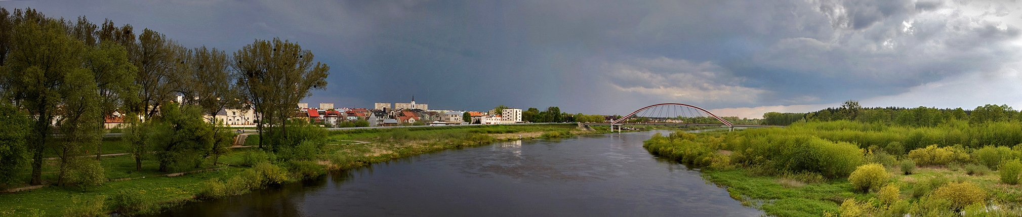 City of Ostroleka (Poland), view from the old bridge.